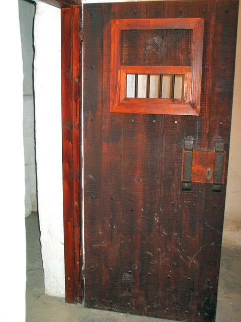 Internal cell door, Lifford Goal It is located in the basement below the courthouse